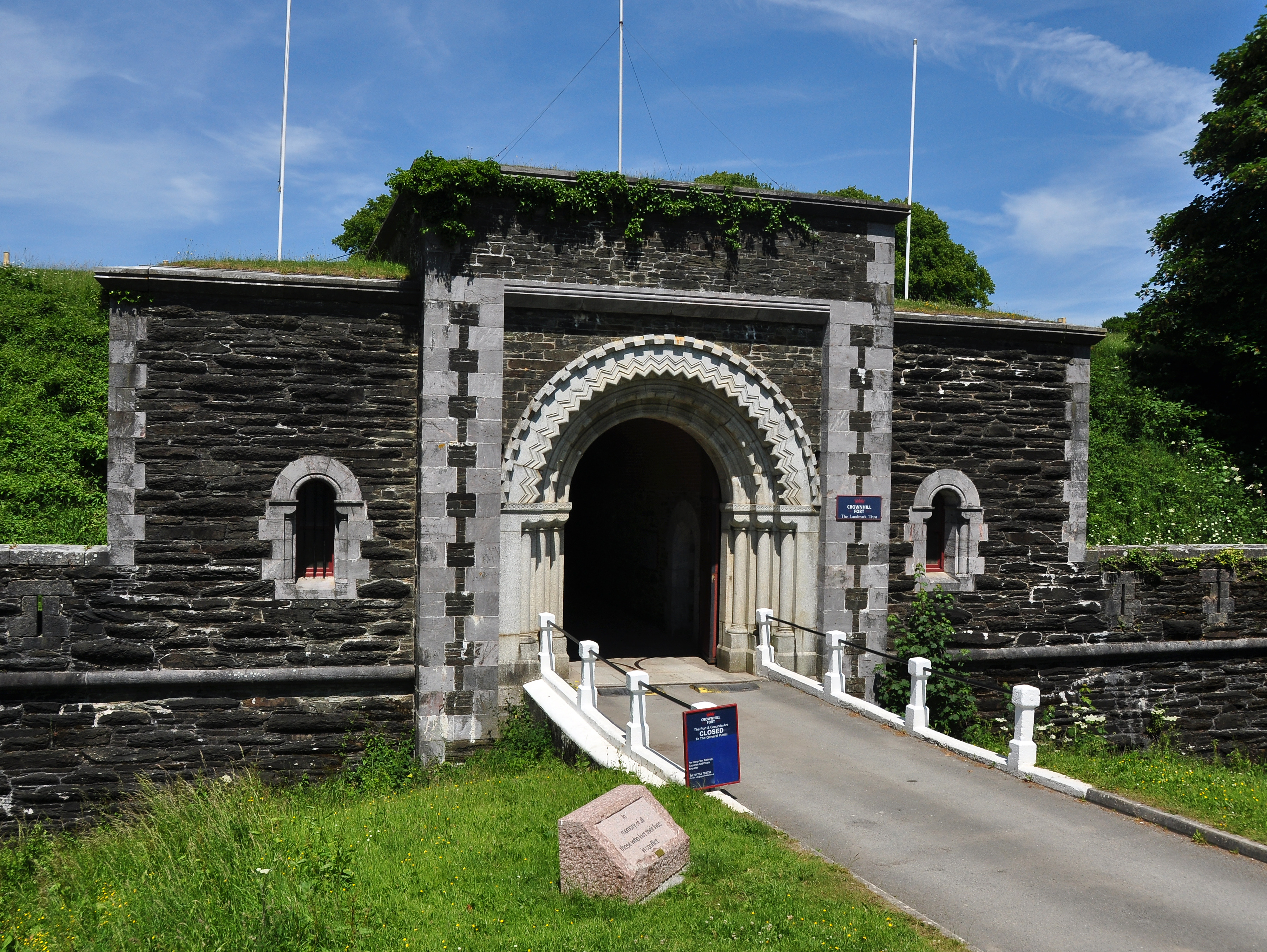 The main entrance to Crownhill Fort, the largest of the Palmerston forts in the north of Plymouth, Devon..